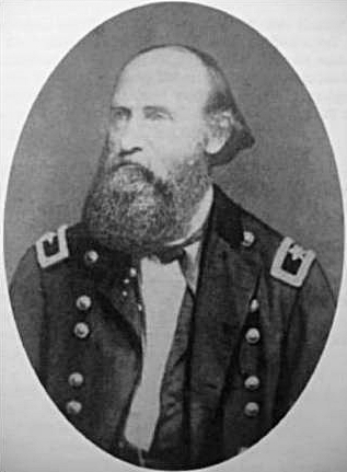 August Willich, German author and military officer